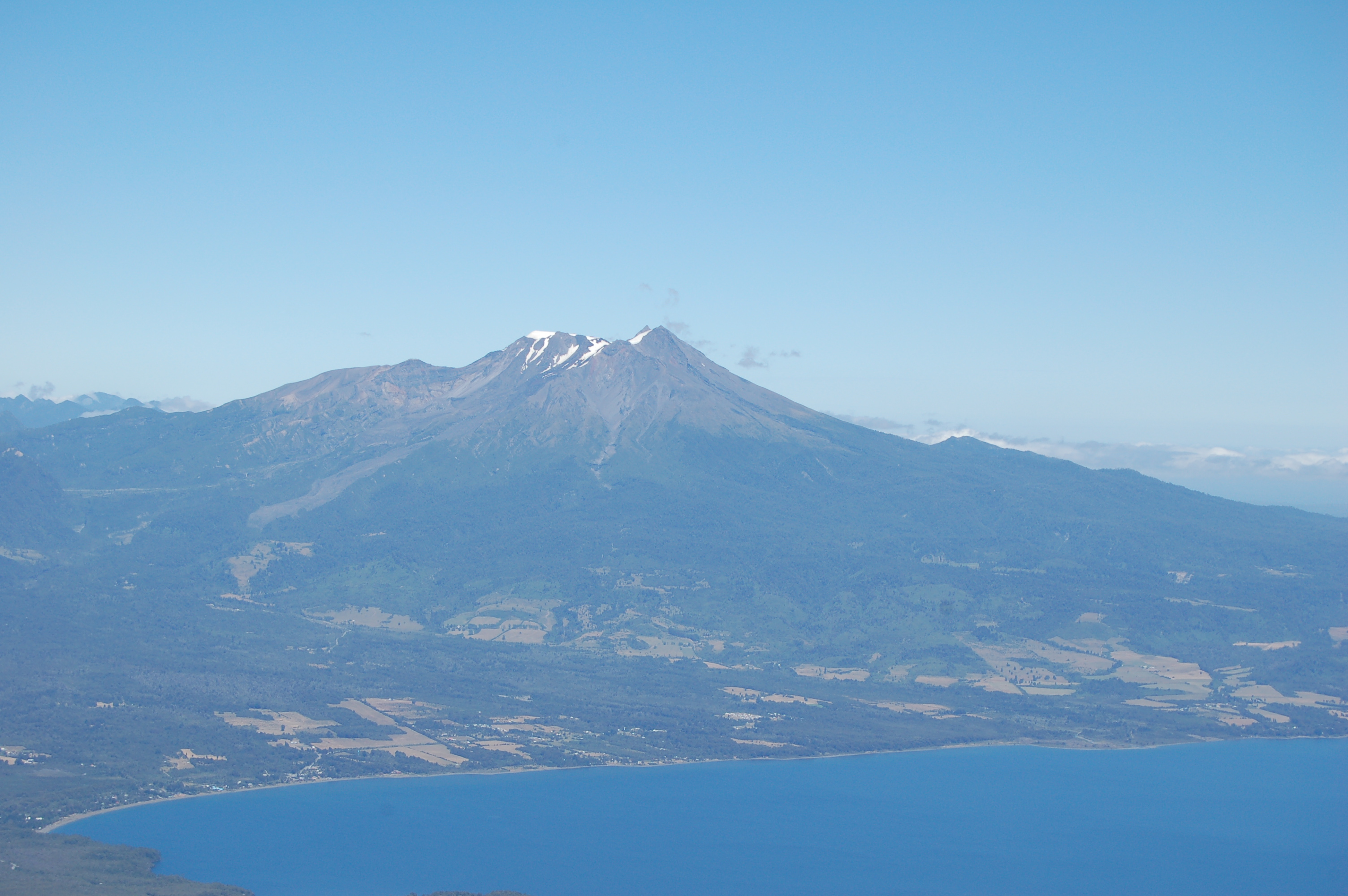 volcano Calbuco seen from volcano Osorno